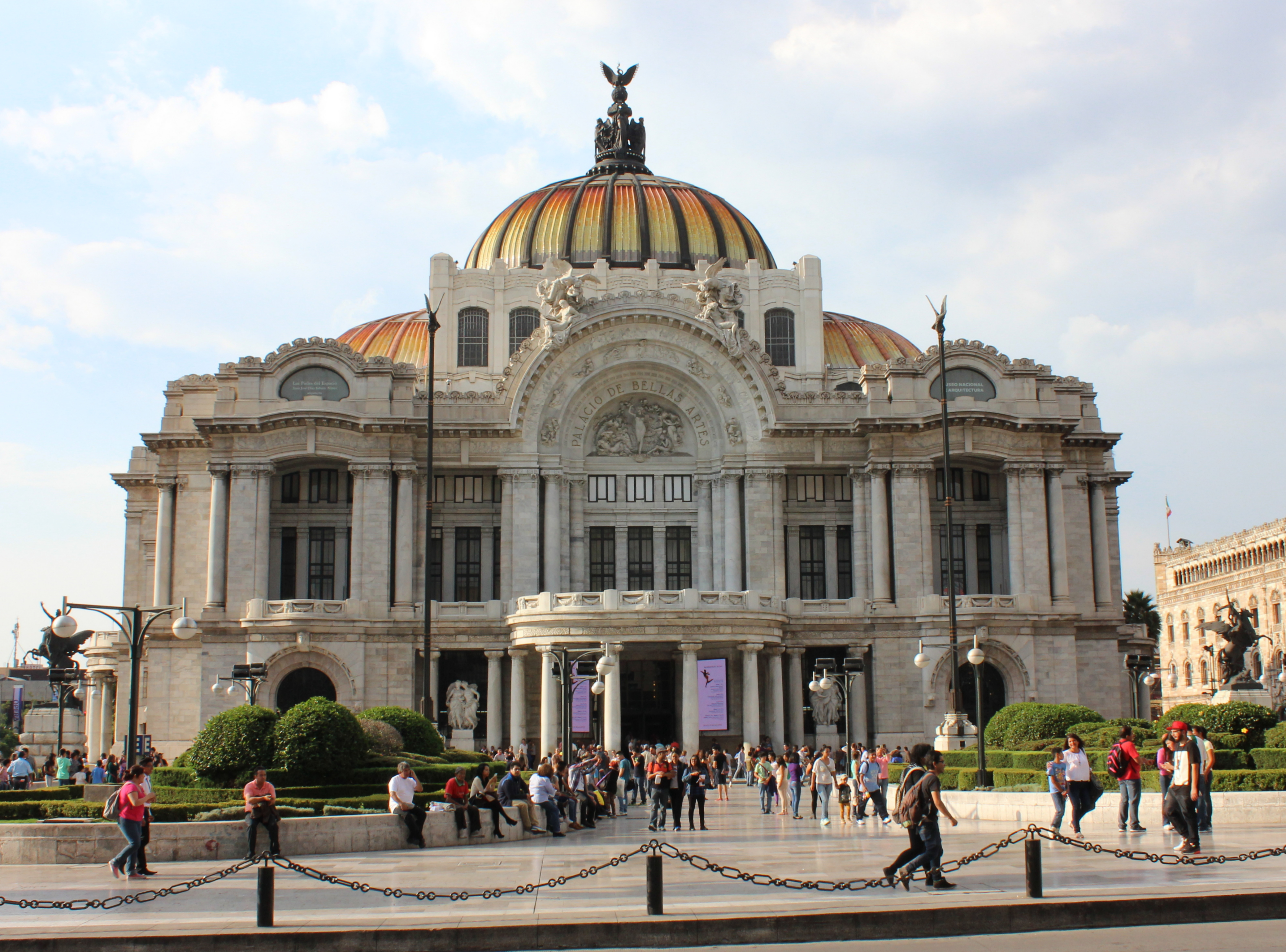 Front view of the Palacio de Bellas Artes, Mexico City.